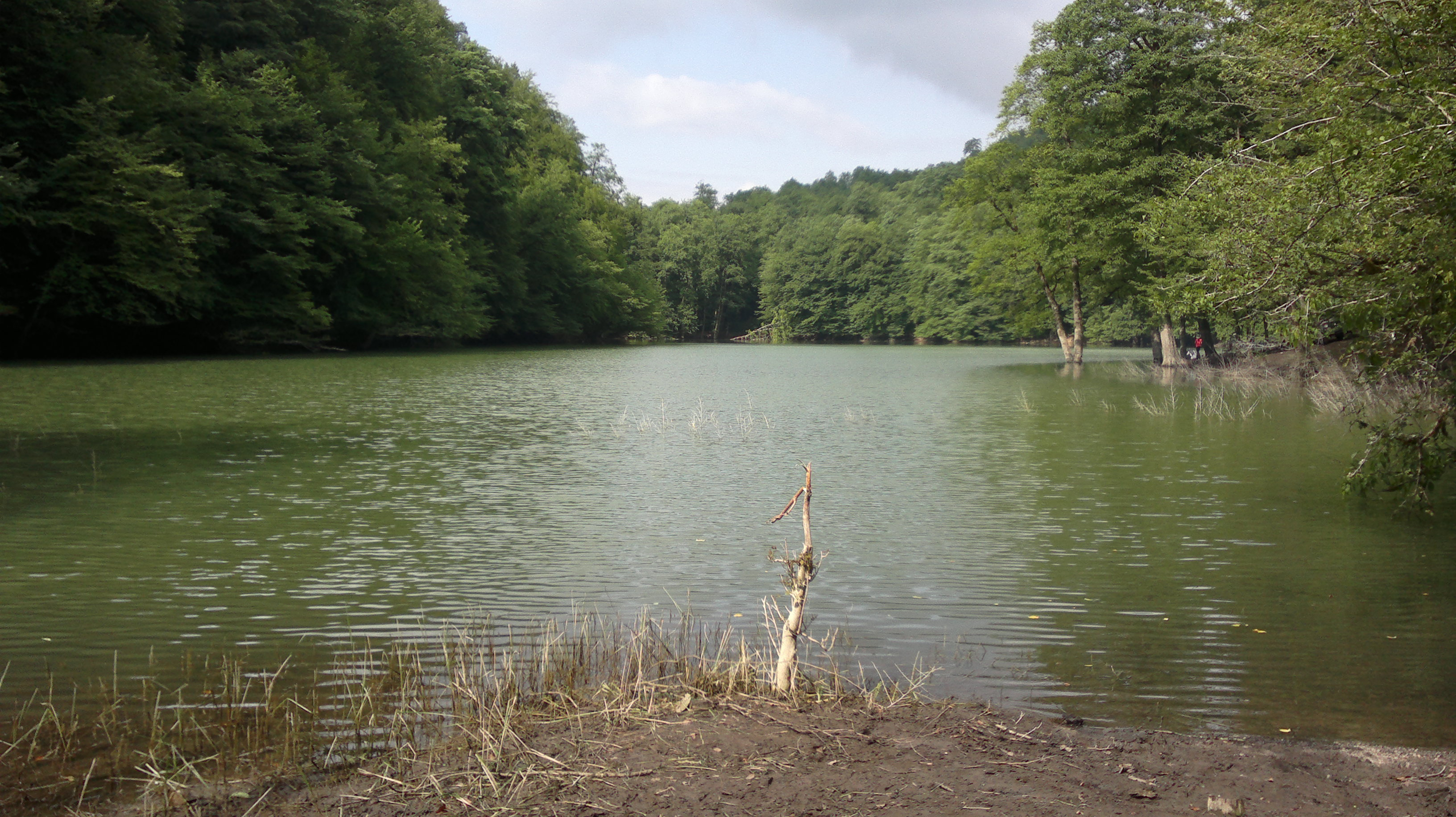 Miyansheh Lake, Mazandaran Province of Iran